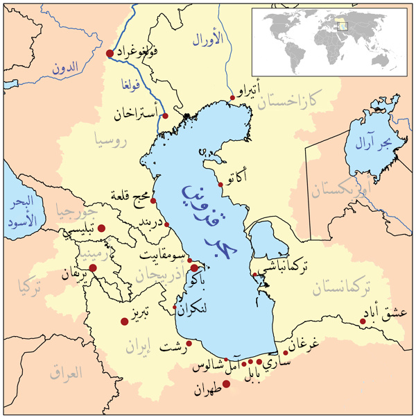 This is a map of the Caspian Sea including a small locator map. The drainage basin of the Caspian Sea is in yellow. The map is based on USGS and Digital Chart of the World data. Note the Aral Sea boundaries are circa 1960, not current boundaries.